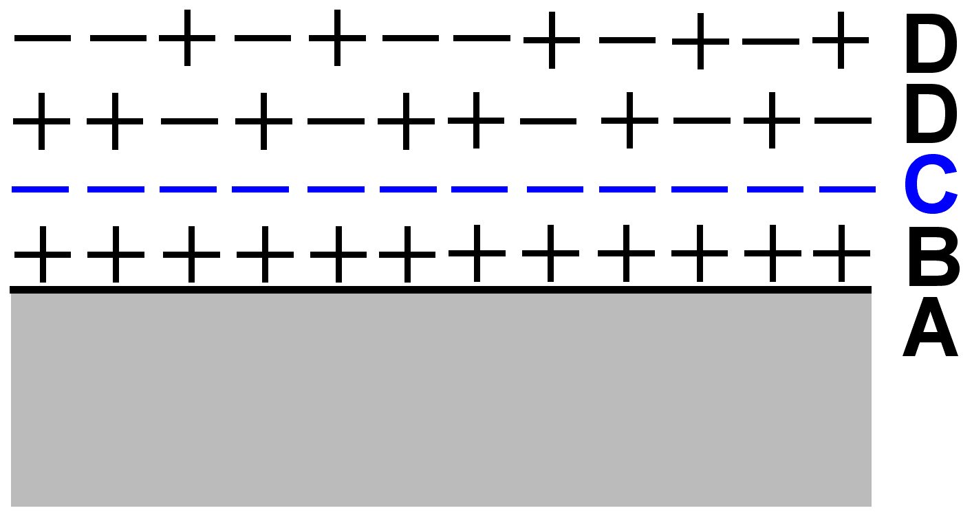 Counter_Ion_Principle